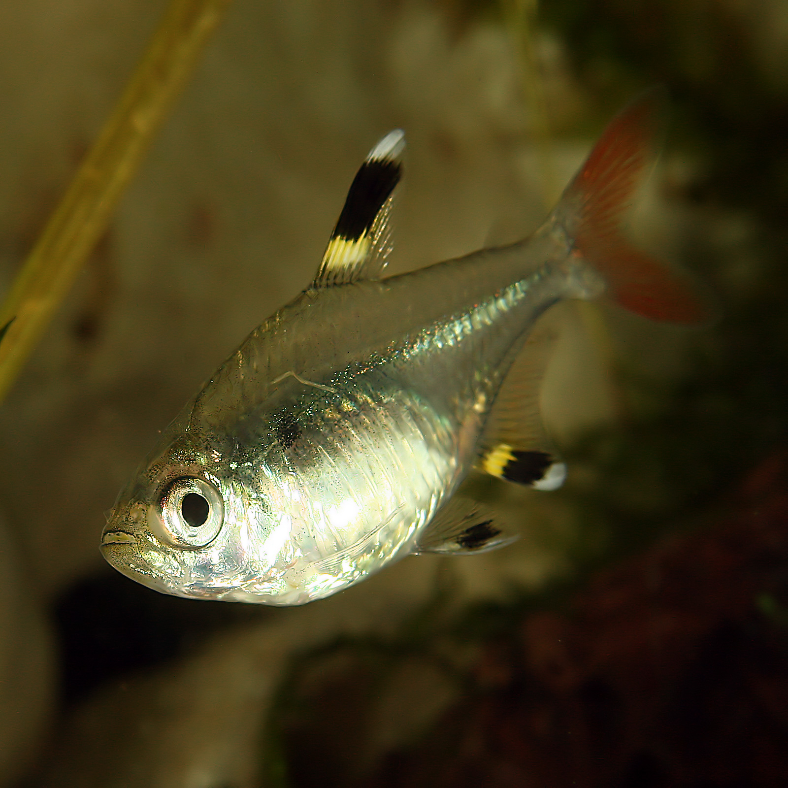 Description: Closeup of a Pristella maxillaris, studio picture.